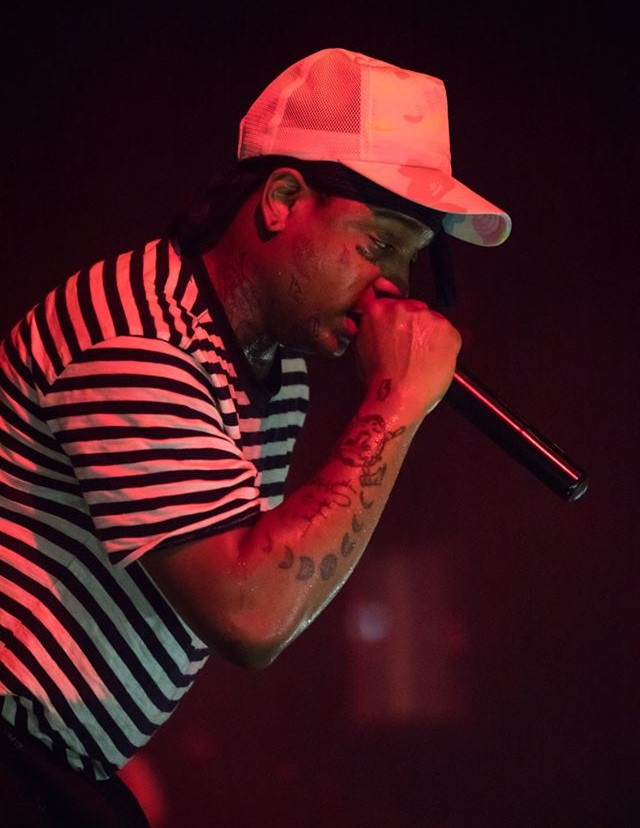 Ski Mask The Slump God performing at a club.